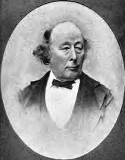 Photograph of Collet Dobson Collet (1812–1898)